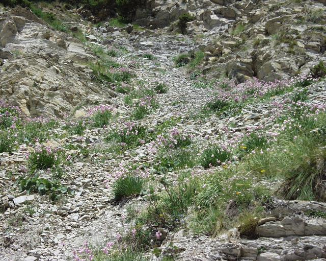 (en) Allium narcissiflorum, a photography originating of the internet site The accord of the autor, H. Brisse, is here. (fr) Ail à fleurs de narcisse (Allium narcissiflorum), une photographie issue du site internet L'accord de l'auteur, H. Brisse, se situe ici. (de)Piemonteser Lauch, (it)Aglio piemontese